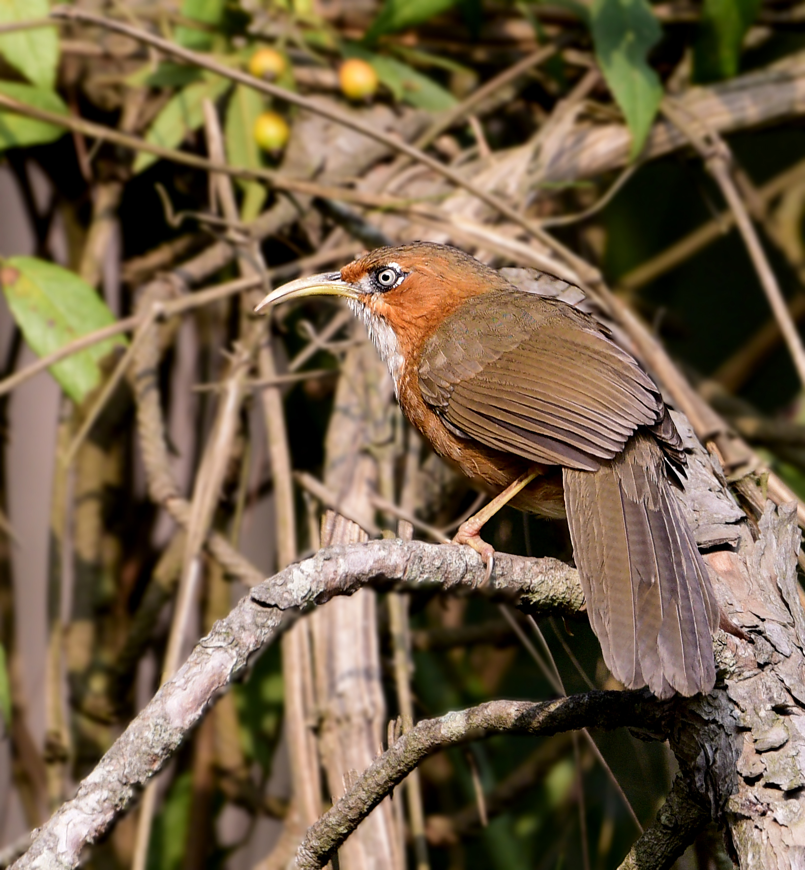 Bird clicked by me.